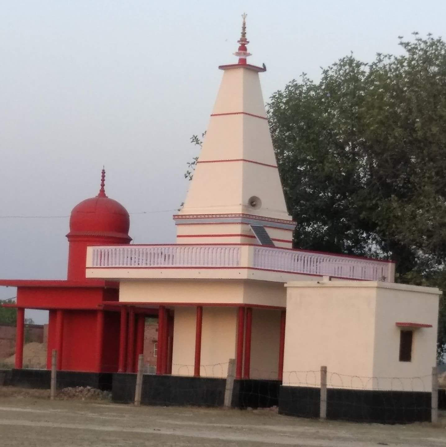 Famous temples of Goddess Kaali & Lord Shankar of village and local area. (image by Aman Singh Raghuvanshi)